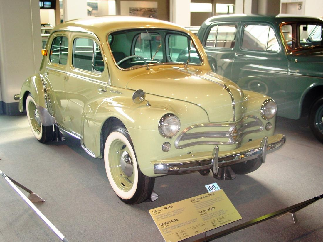 Hino Motors Ltd. tied up with Renault of France and, in 1953, began production of the Renault 4CV. This survivor is in the Toyota Automobile Museum